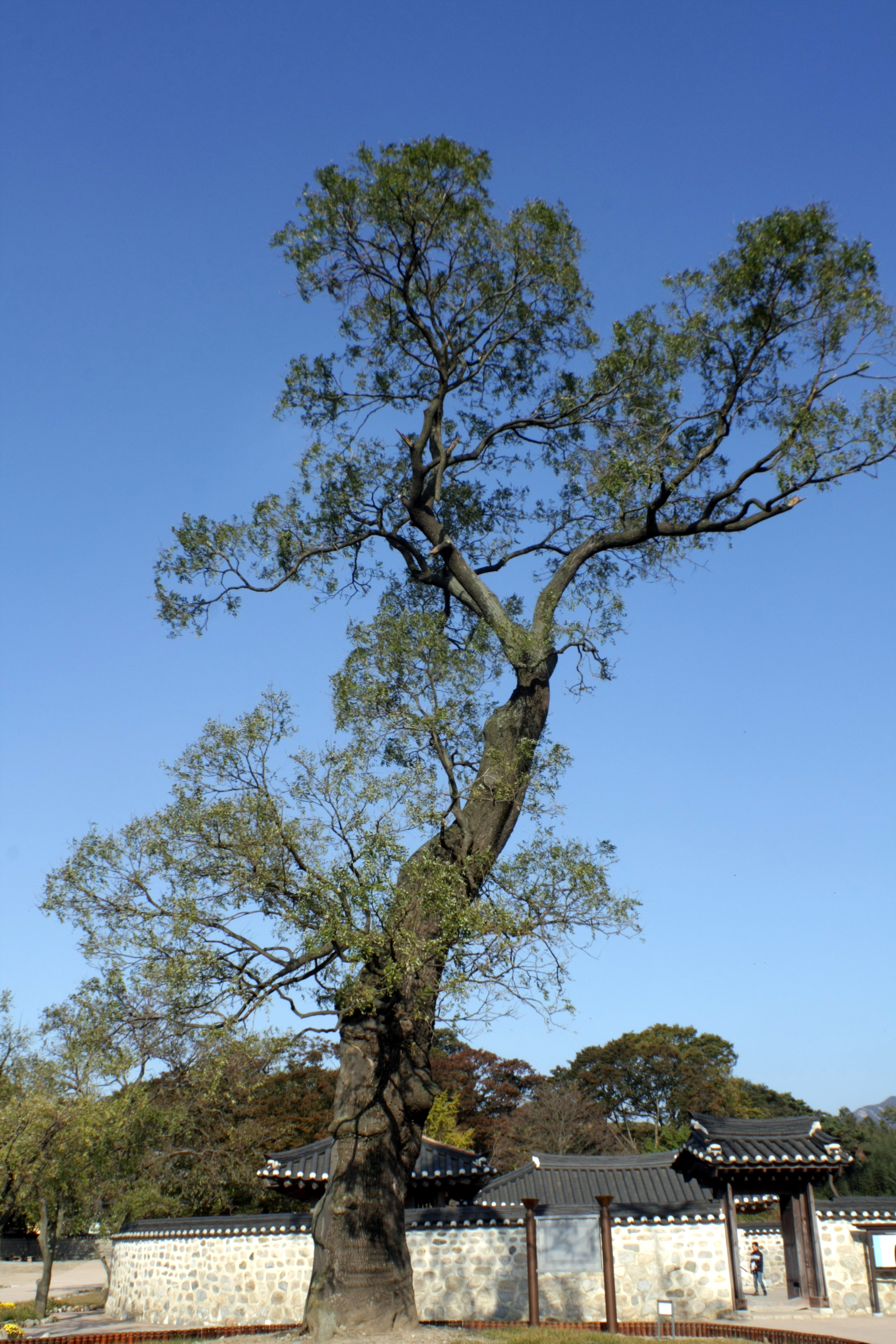 Styphnolobium japonicum in Seosan, Korea